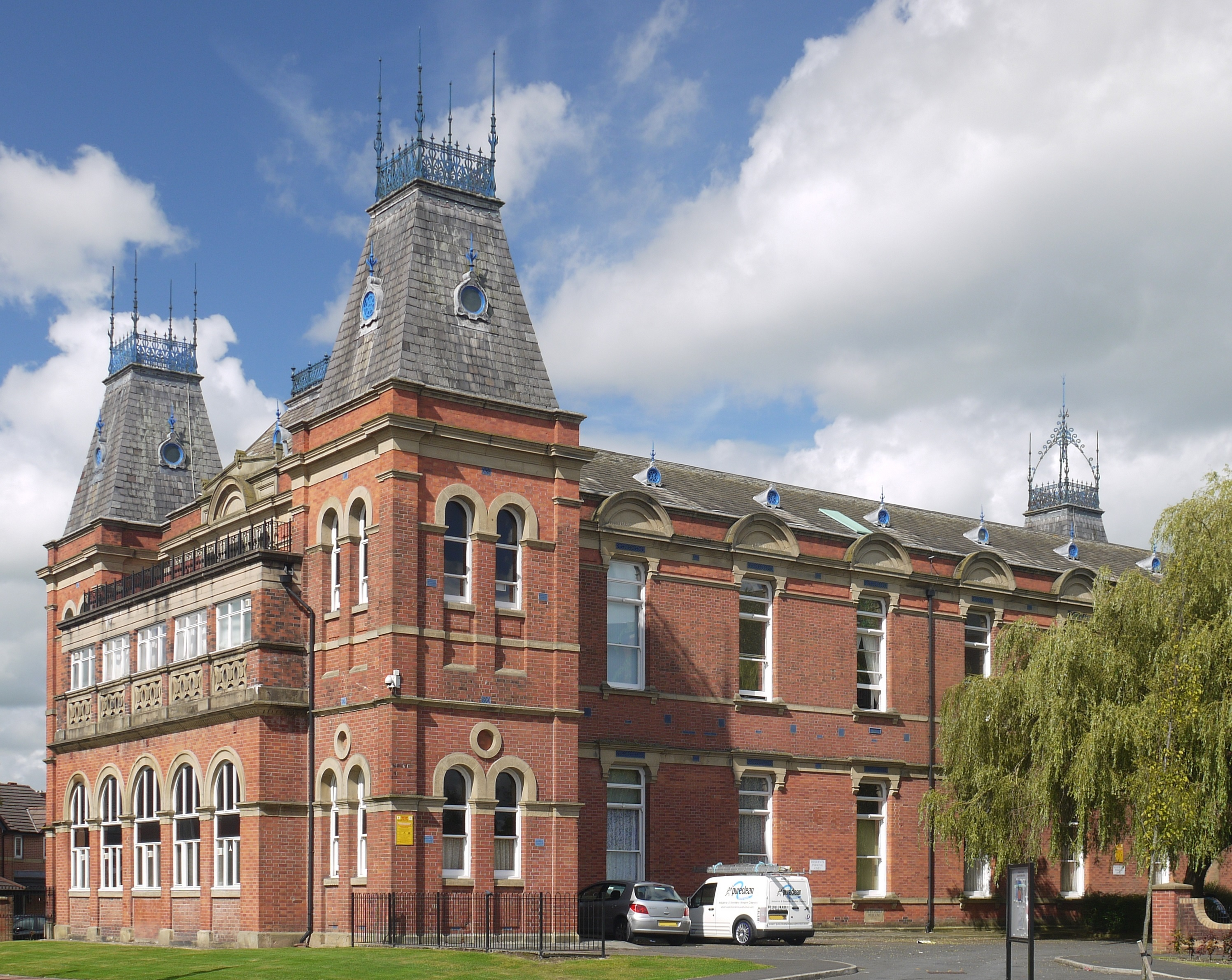 This was originally the west wing of Preston Royal Infirmary. It was designed by James Hibbert, and has since been converted into a hall of residence. It is in brick with sandstone dressings and slate roofs. The building is in a long rectangular block, with two storeys and cellars. There are towers at the corners and above the entrance, all with steep pavilion roofs in French style and ornamental iron cresting.